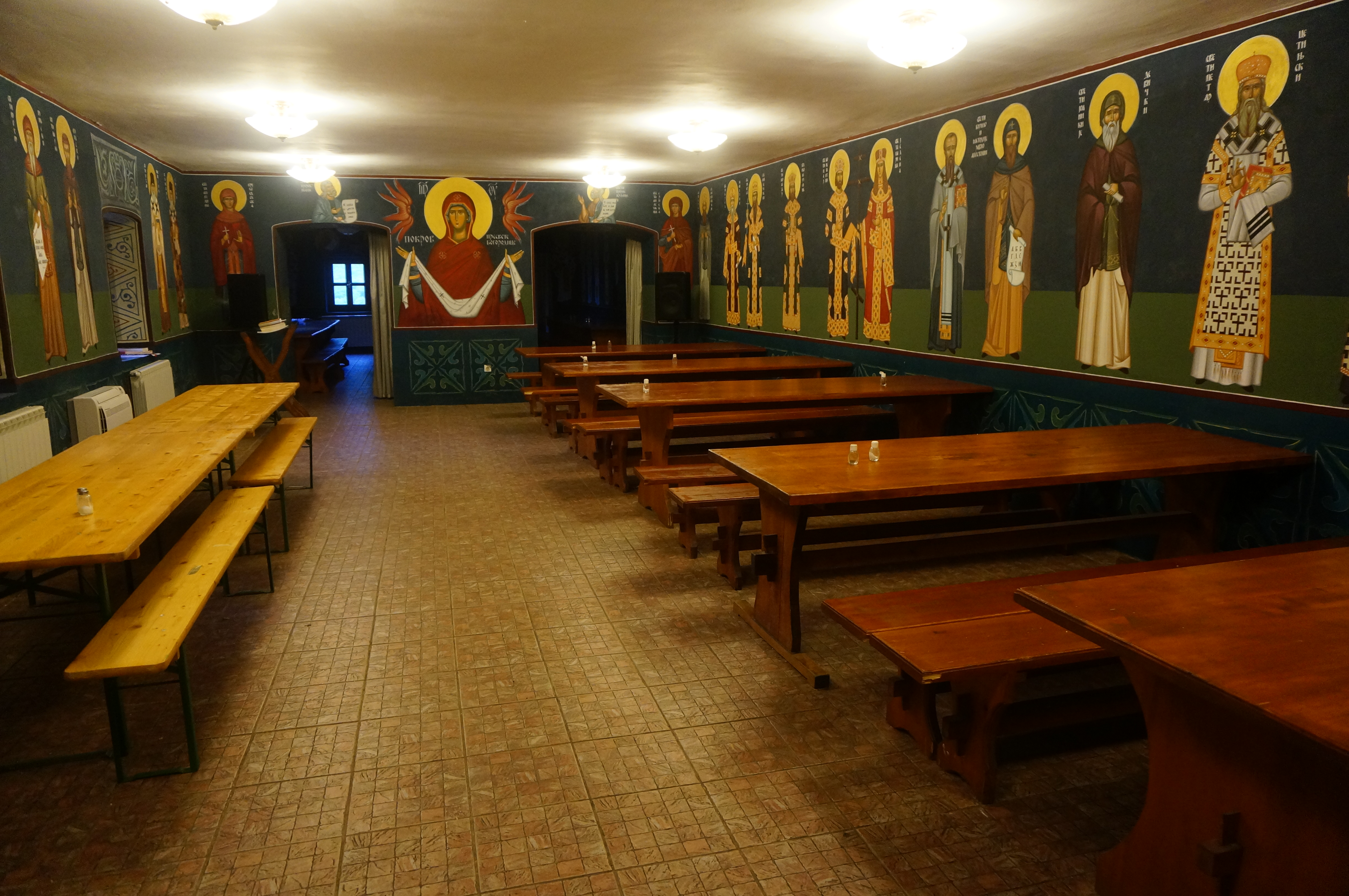 Refectory of the Krka Monastery, Croatia.